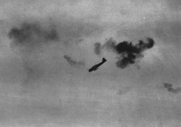 A Japanese Mitsubishi A6M Zero kamikaze plane attacking U.S. Navy ships off the Philippines.